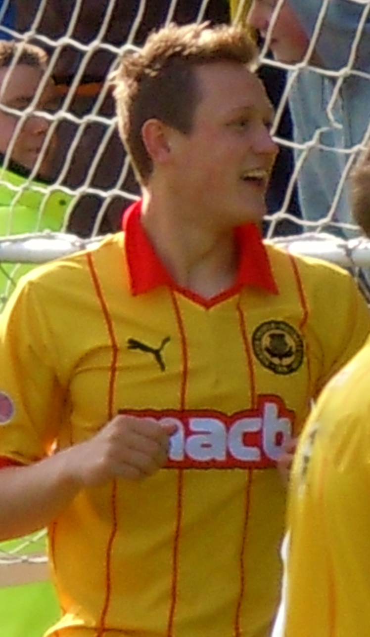 Photo of footballer James Craigen. Firhill. PTFC vs Dunfermline.